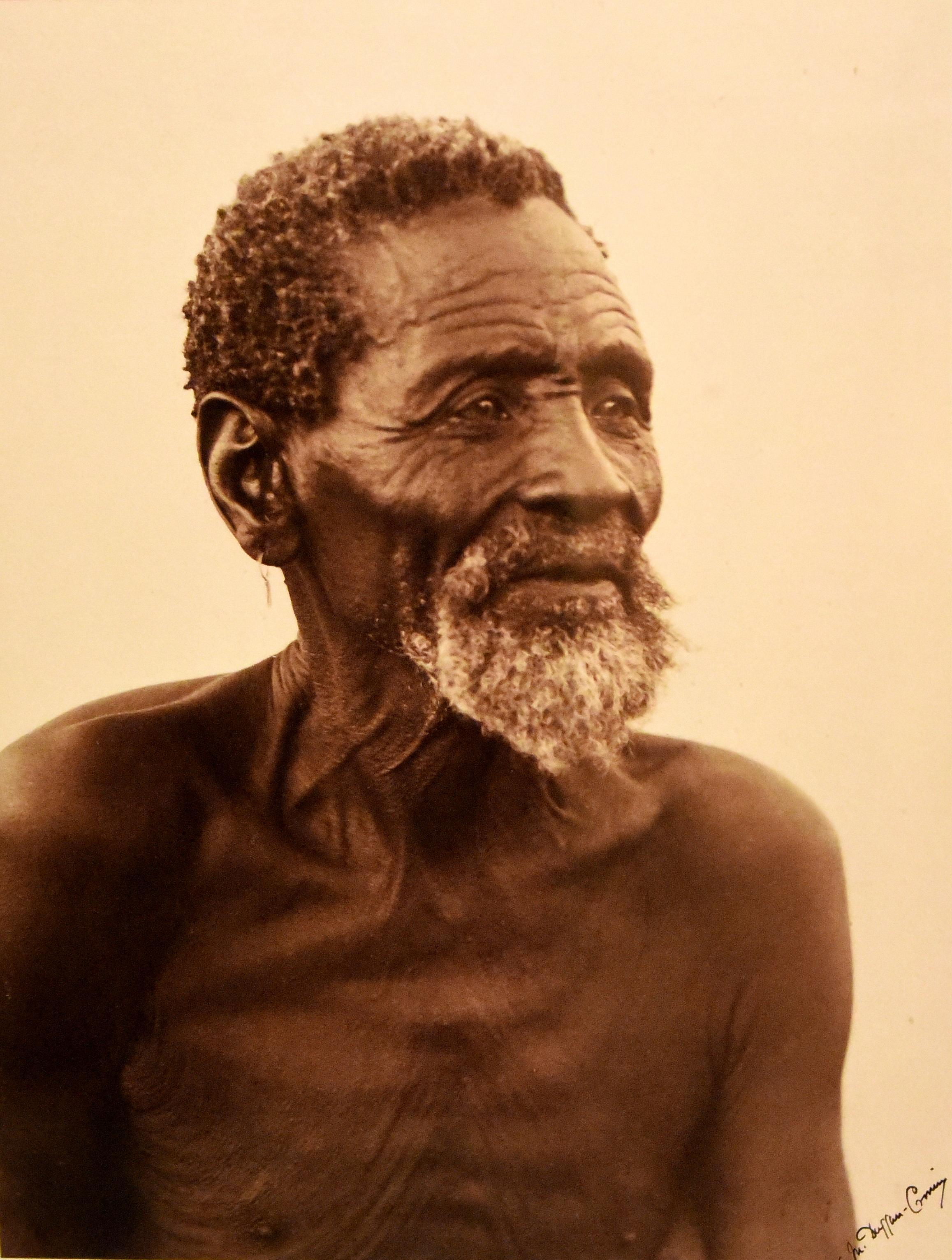 Portrait of a bushman. Alfred Duggan-Cronin. South Africa, early 20th century. The picture is housed in the Wellcome Collection and is on display. The original black&white picture is ©Wellcome Trust.